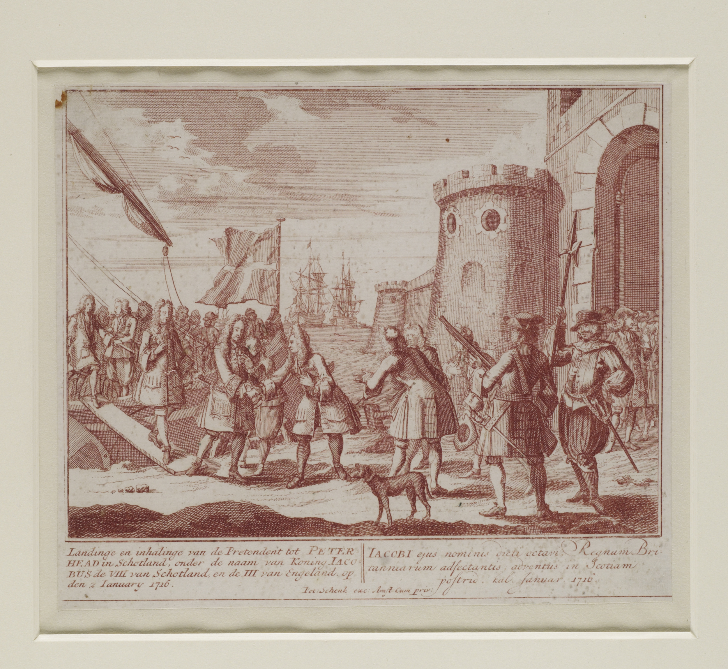 Prince James Landing at Peterhead, 2 January 1716 on (actual date was 22 December 1715) 6 1/4x 7 1/4 In Dutch and Latin, showing the landing of the Pretender at Peterhead in 1716. Men getting off boat, with two more boats in the water in the background and men standing to greet them at the stone entrance to the town